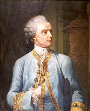 Portrait of Christian Gottlob Heyne (1729-1812)